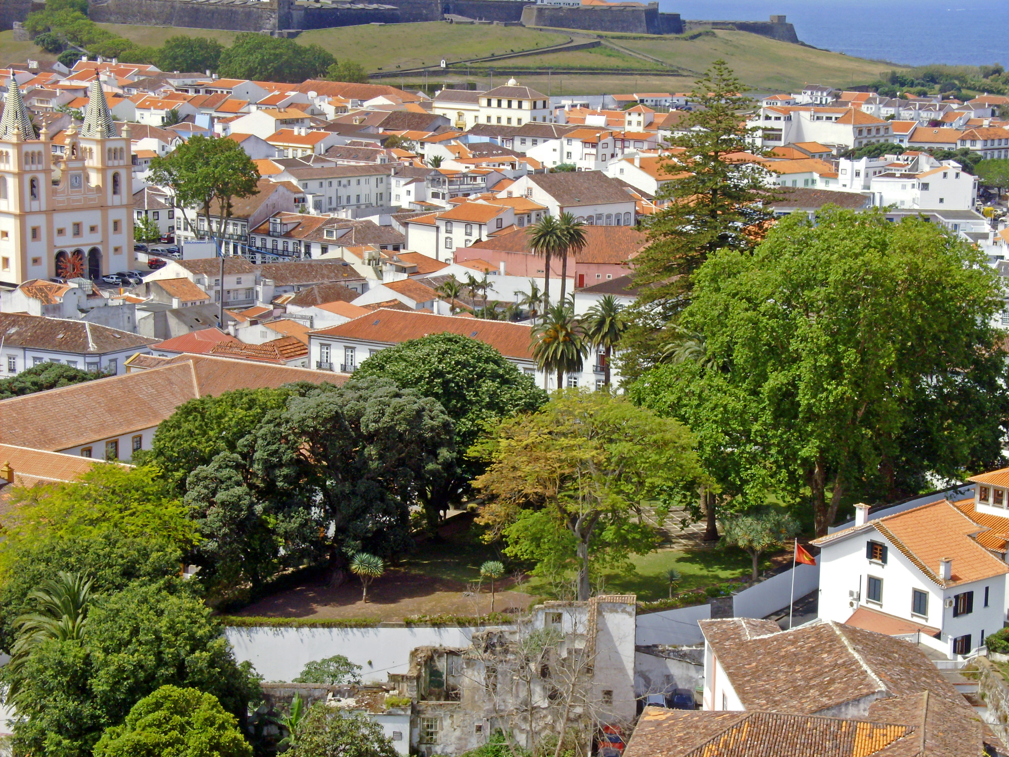 View to the gardens of the Palácio dos Capitães Generais, Angra do Heroísmo, Terceira (Azores), Portugal